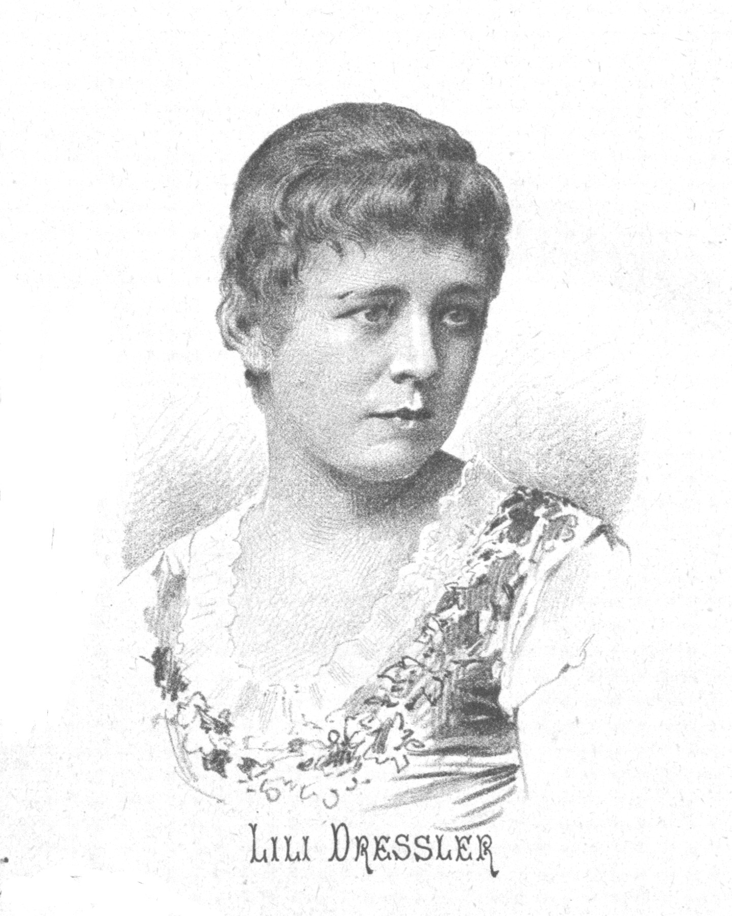 Portrait of Lili Dreßler (1857-1927), German singer. (The portrait itself is not signed, but others on the same double page are signed by Ignaz Eigner, so this one is likely also his work.)